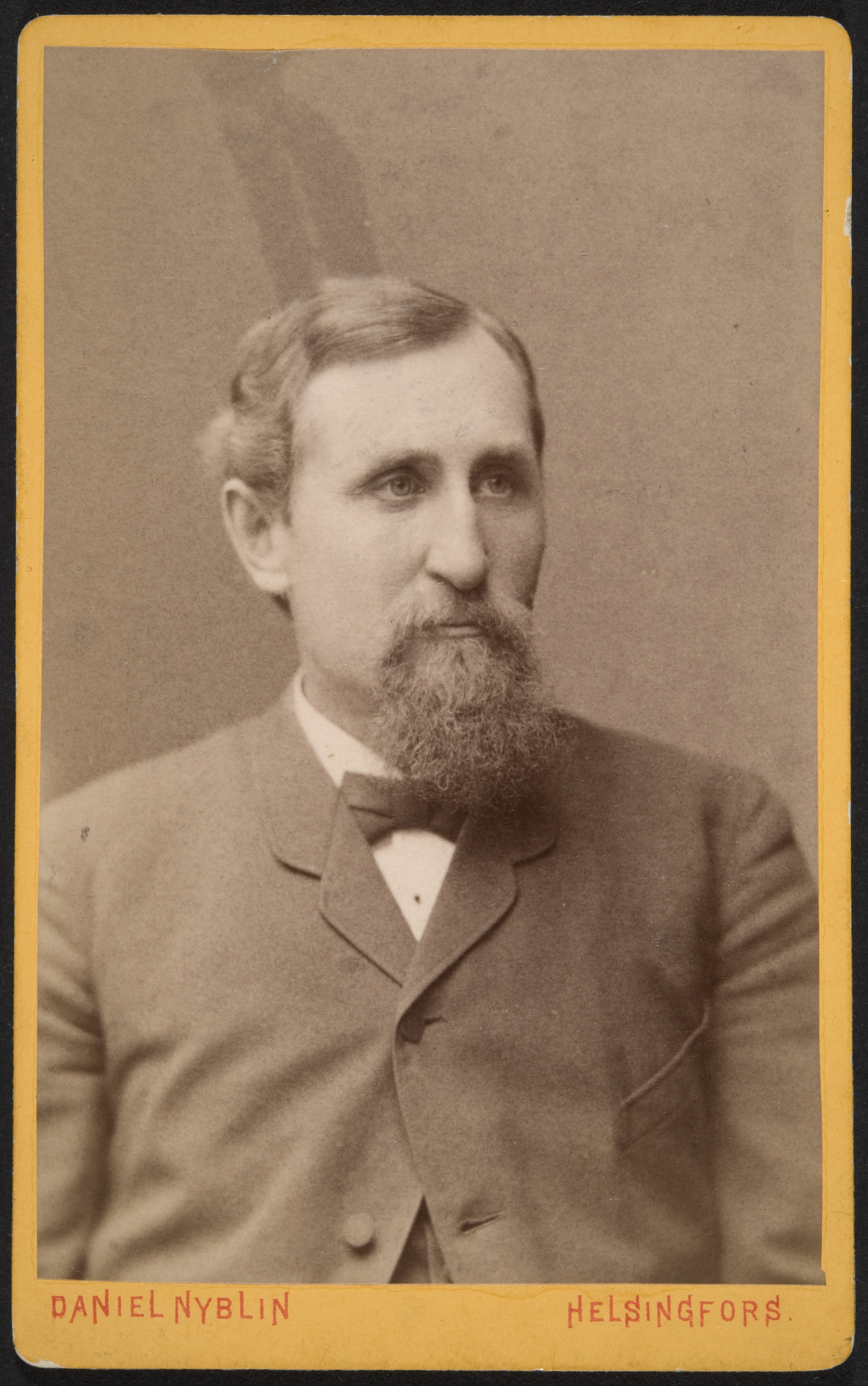 Photograph of the Finnish gymnastics educator Frans Viktor Heikel (1842–1927).